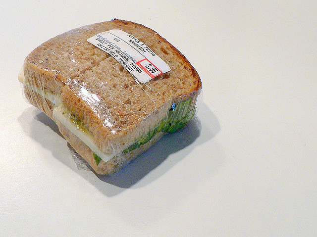 Cling film sandwich